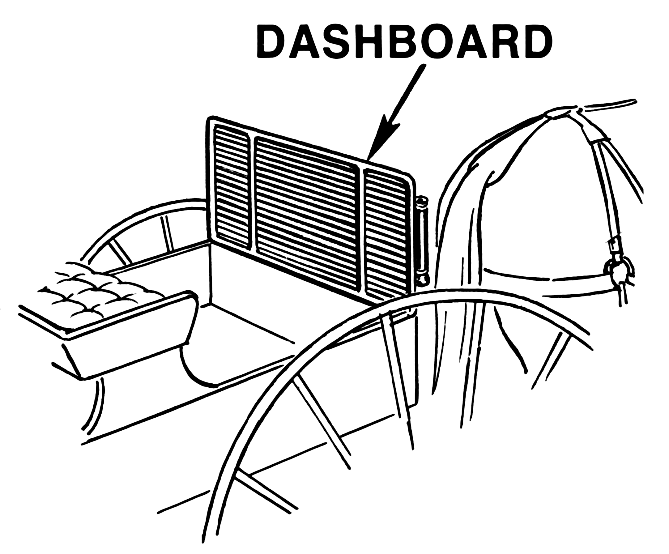 Line art drawing of a Dashboard